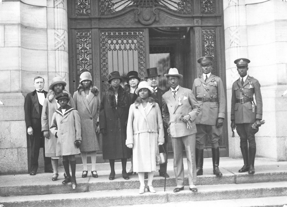 Charles D. B. King, 17th President of Liberia (1920-1930), with his entourage on the steps of the Peace Palace, The Hague (the Netherlands). Dated Thursday 29 September 1927. Photo collection Carnegie Foundation.